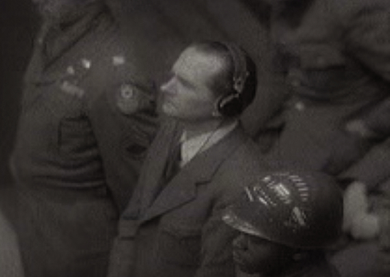 Hubert Lanz (1896–1982), War Crimes Trials - Subsequent Trial Proceedings - Hostages Trial #7, Nuremberg, Germany. Sentencing Southeast Generals.